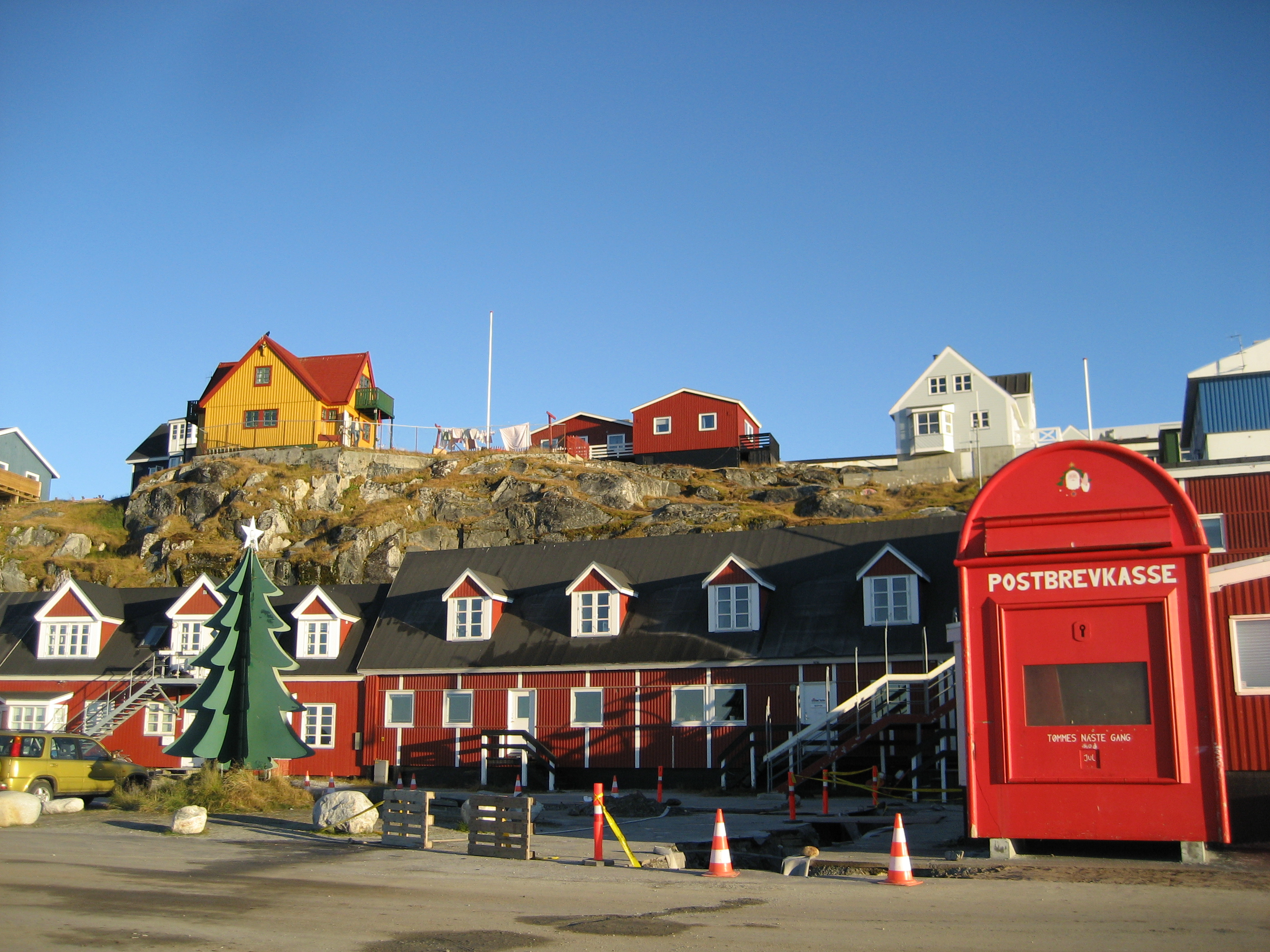 The tourist office in Nuuk, Greenland with a fake Christmas tree and an extremely large postal box. In 1992 Nuuk constructed these as a tourist attraction, as Nuuk (Along with several other cities) is purported as the home of Santa Claus. Photo by Paul Cziko.